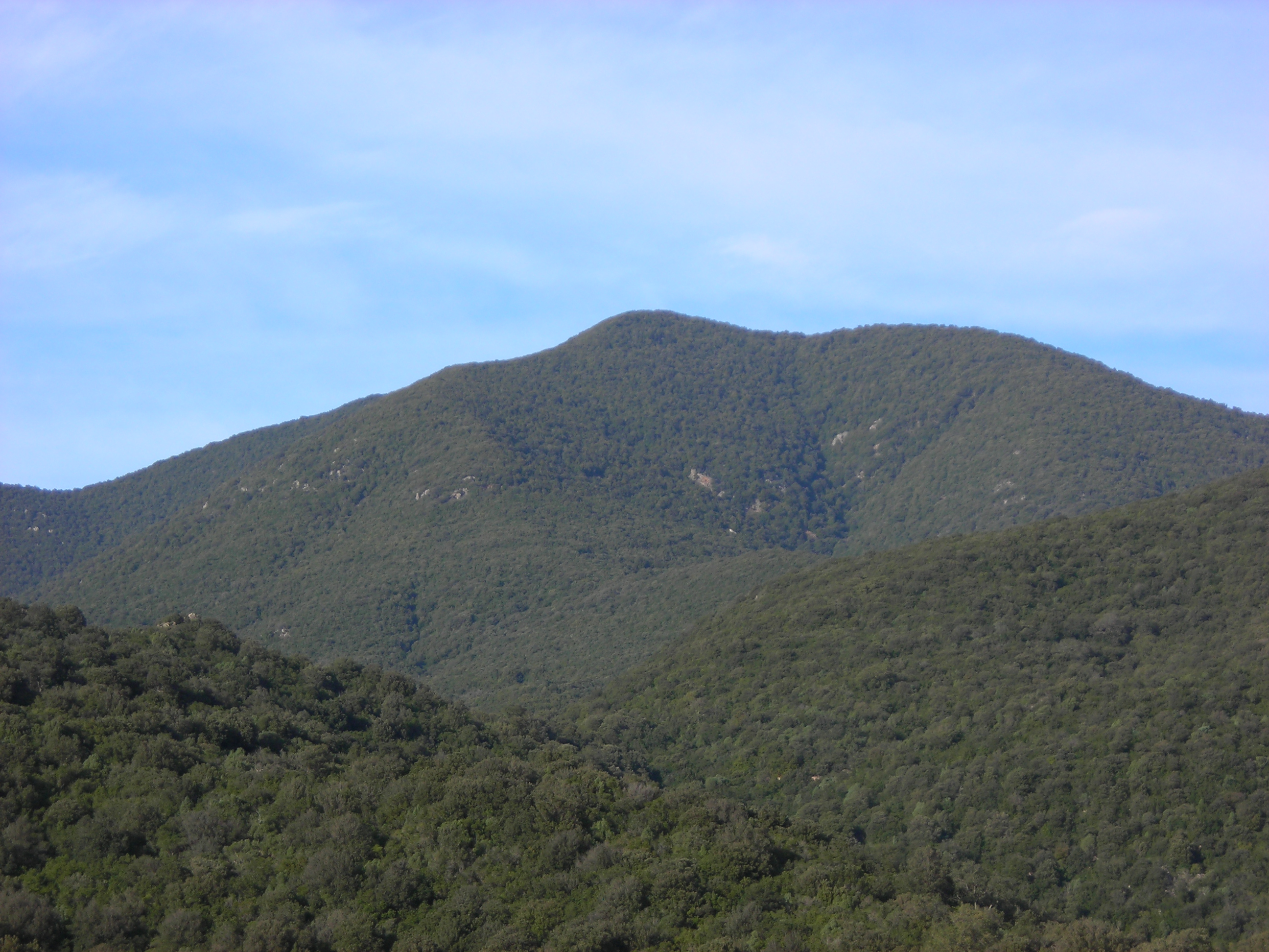 Mount Sa Mirra (Sardinia, Italy). View from S'Arcu Schisorgiu